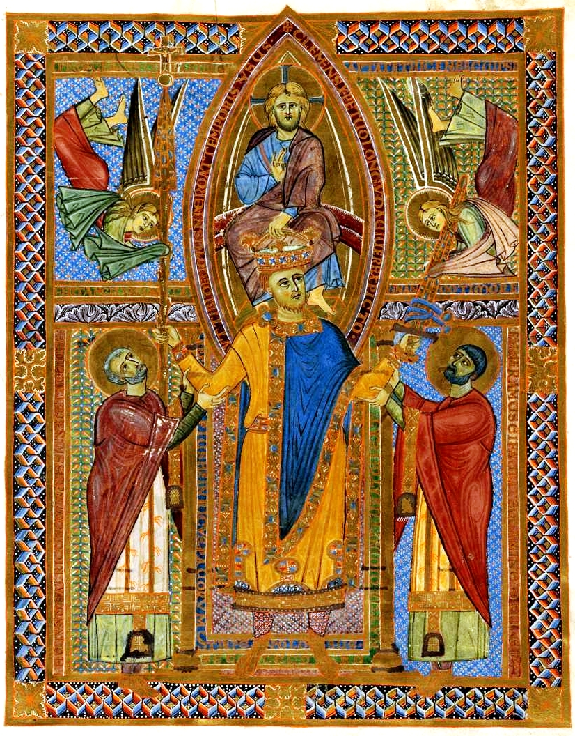 Sacramentary of king Henry II [1002-14] - München BSB Clm 4456 Seite 33c: King Henry II